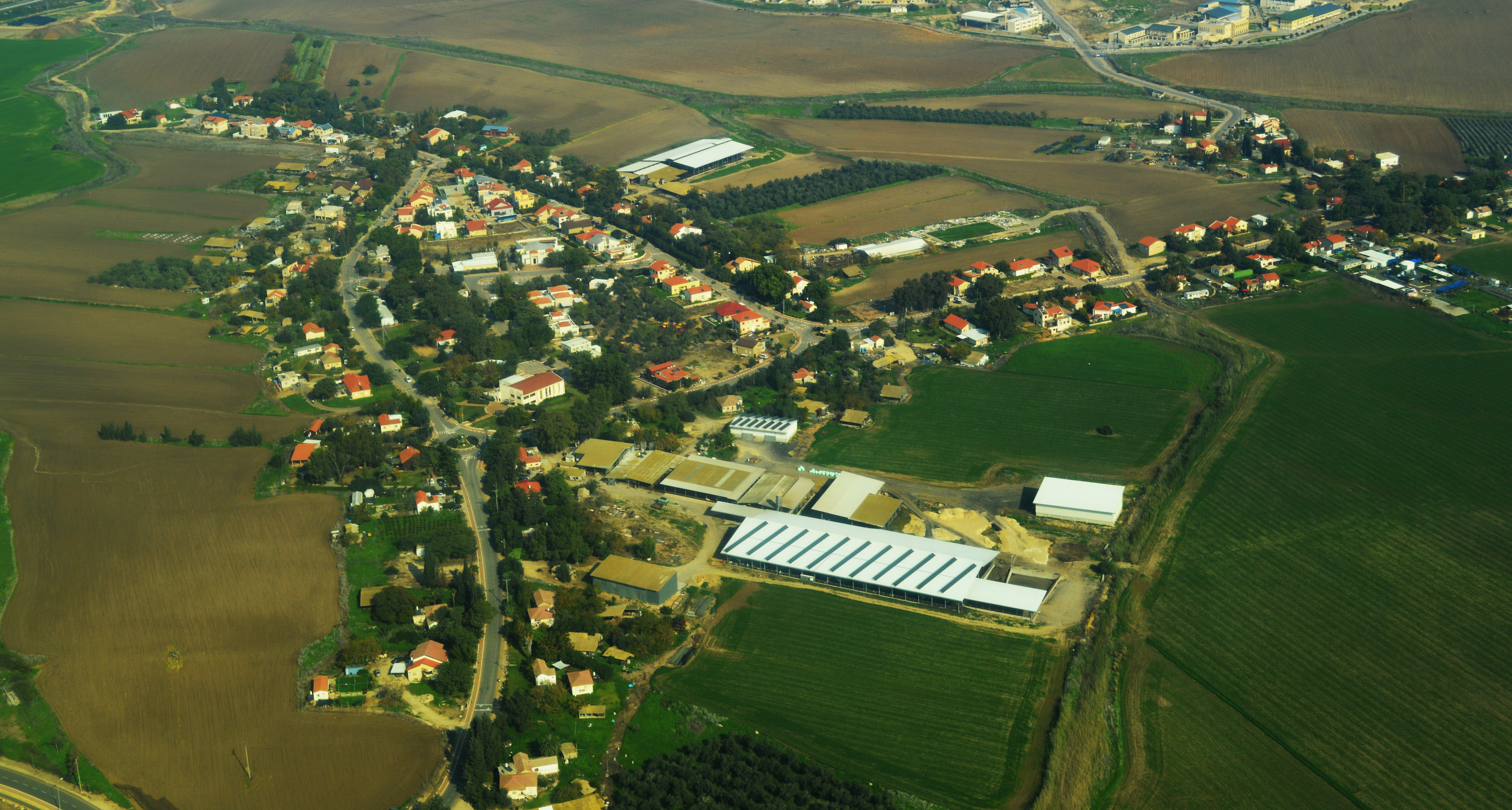 Beit Hilkia Aerial View